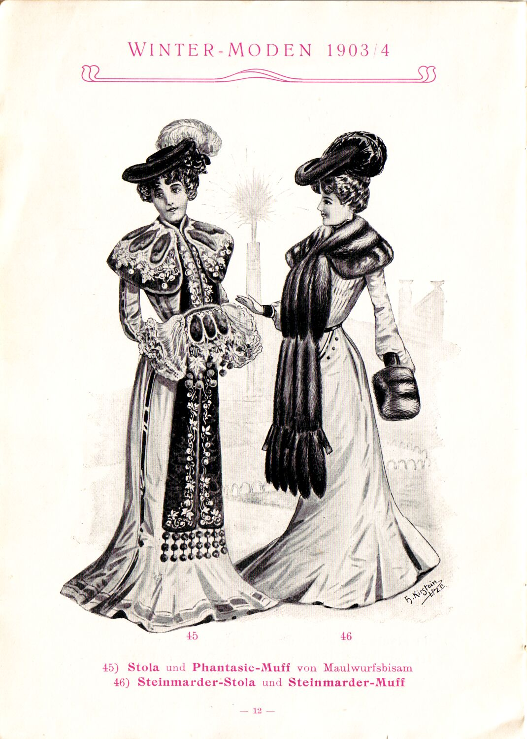 Clothing with different furs